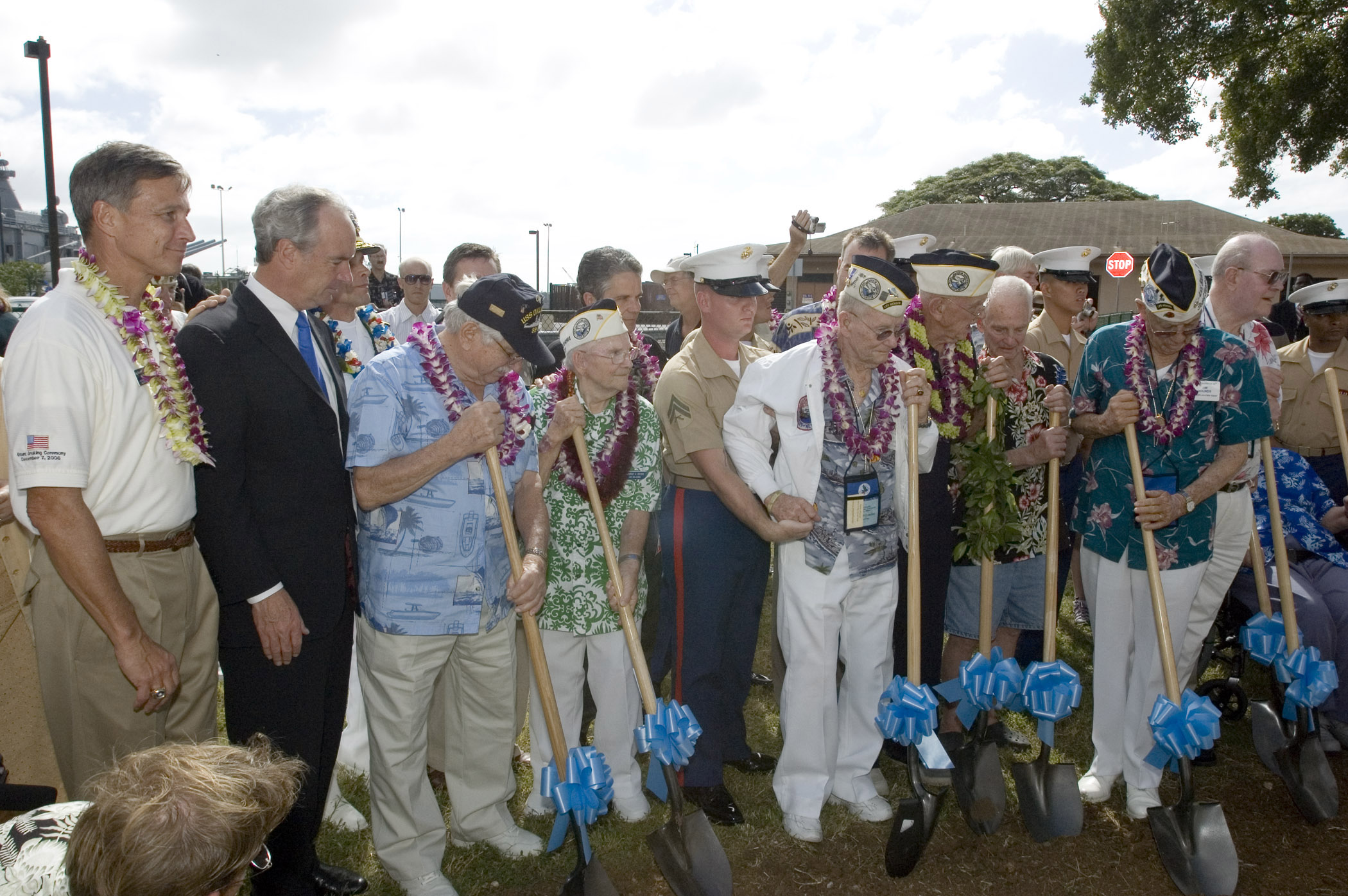 Pearl Harbor, Hawaii (Dec. 7, 2006) — Fifteen USS Oklahoma survivors along with Secretary of the Department of the Interior, The Honorable Dirk Kempthorne and Governor of Oklahoma, The Honorable Brad Henry broke ground for a USS Oklahoma Memorial, which will be built next to the USS Missouri Museum on Ford Island. More than 1,500 Pearl Harbor survivors, their families and friends from around the nation along with 2,000 distinguished guests and the general public took part in this annual observance.